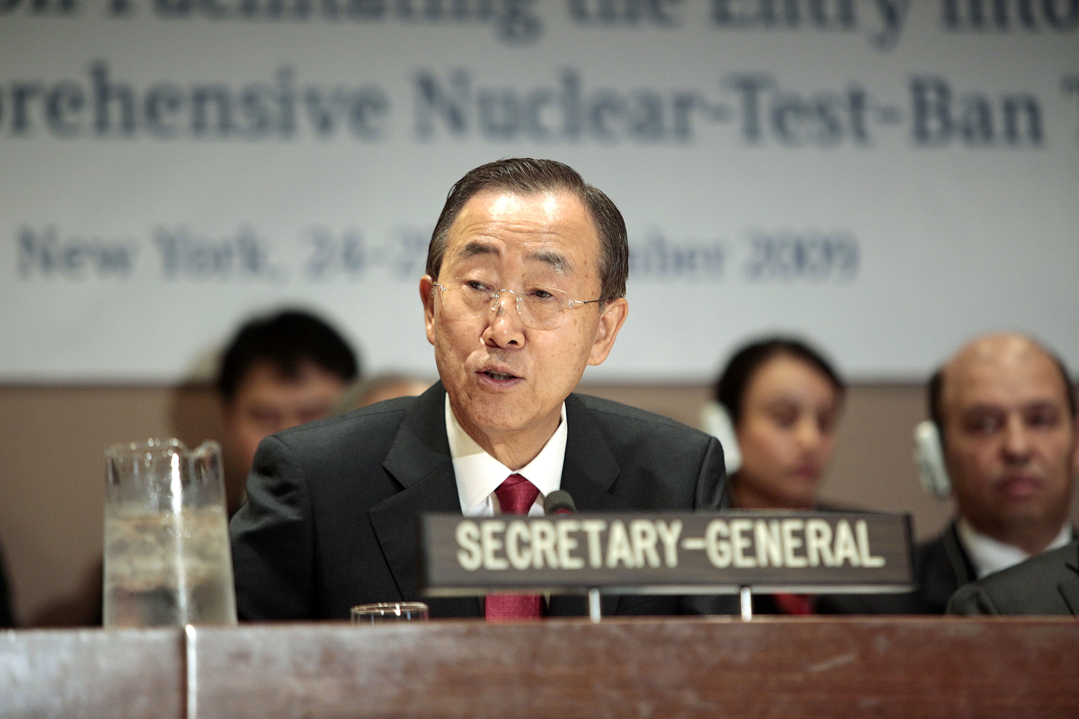 24 September 2009 - New York The UN Secretary General Ban Ki-moon addressing the Conference on Facilitating the Entry Into Force of the Comprehensive Nuclear-Test-Ban Treaty. CTBTO Photo/ Sophie Paris Copyright CTBTO Preparatory Commission